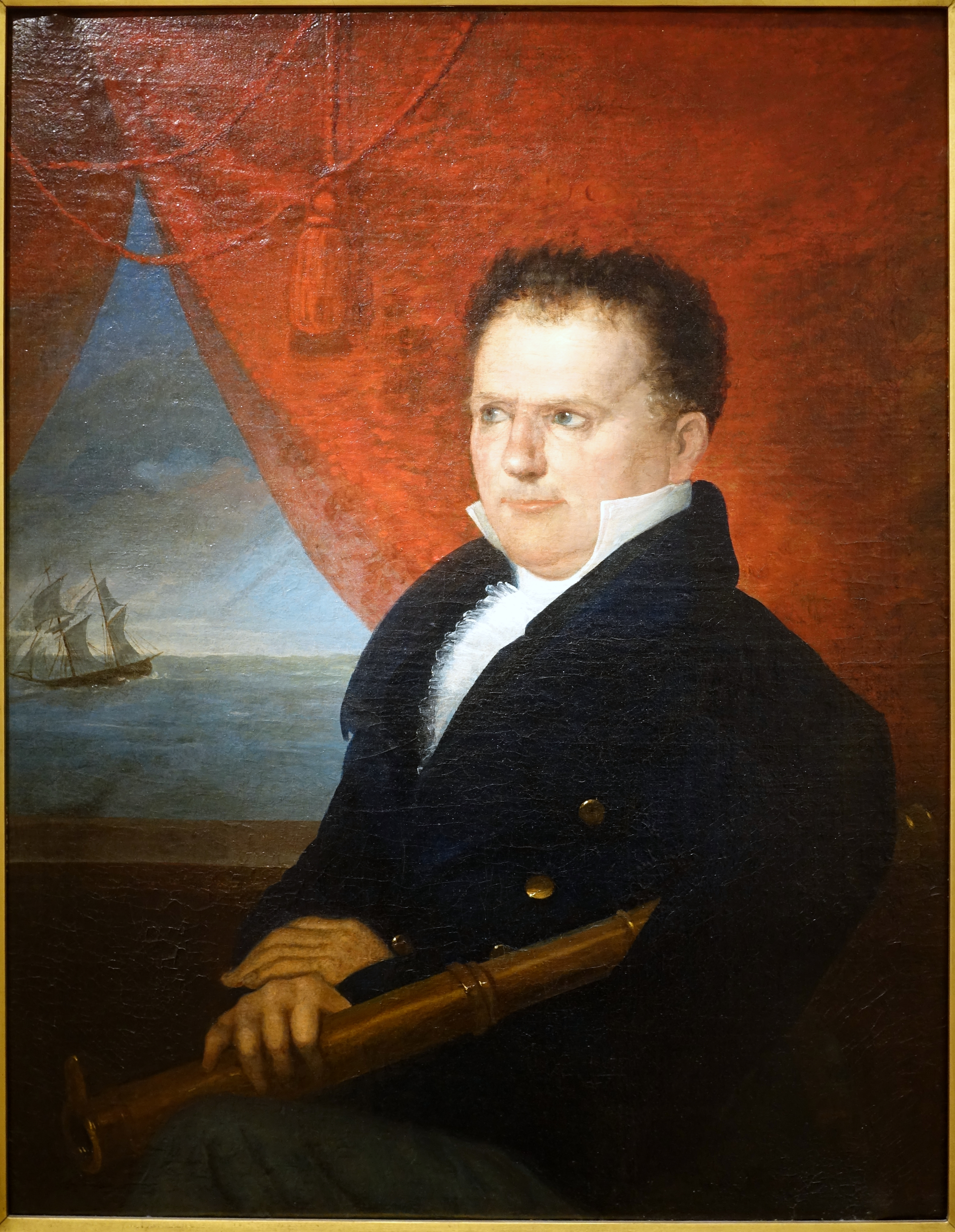 Exhibit in the Peabody Essex Museum - Salem, Massachusetts, USA.